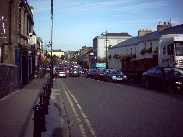 De Burgo 2003-2007 nit pickers abstain, Like anyone else equiped with photographic equipment, and image treatment software, satisfactory resluts are today attainable, by anyone, me in this case: NIT Pickers, Puretins, and otherwise.... Circulate, continue your road, de Burgo